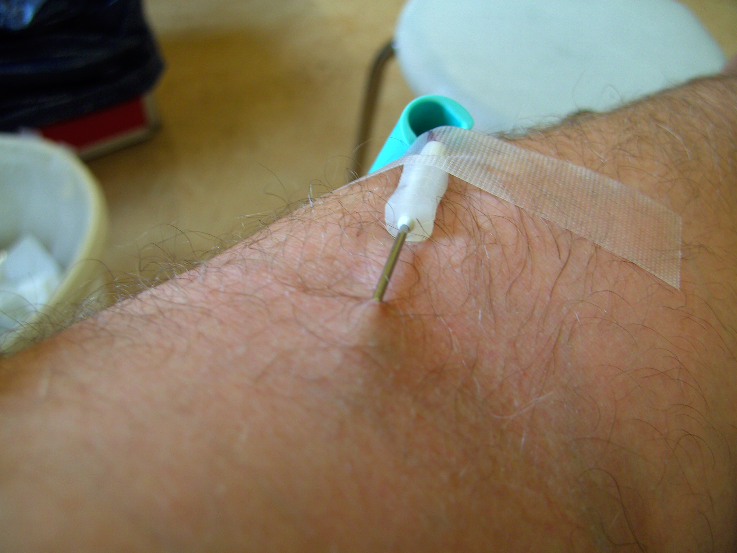 blood donation